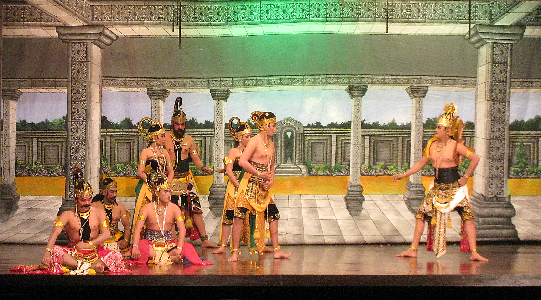 Wayang Wong (Wayang Orang) Javanese dance performance in Wayang Orang Bharata Theatre, Senen, Jakarta. Depicting the character Pandawa Lima with their guard in left, and Sri Kresna in the right.